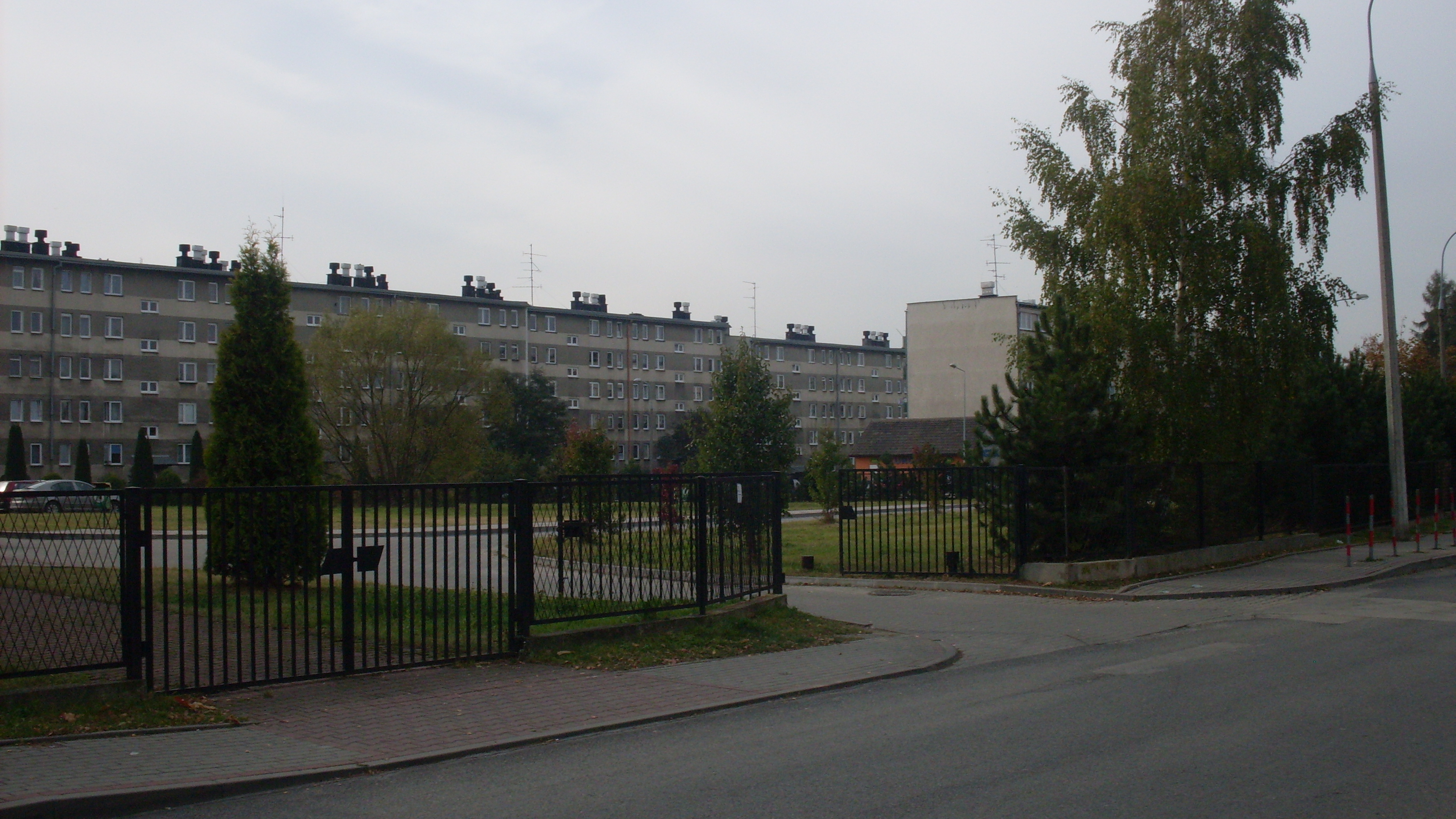 Krzeszowice. Długa Street